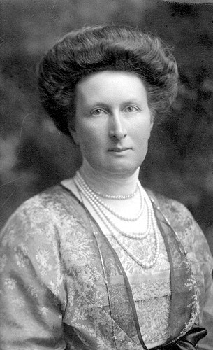 Duchess Elisabeth Alexandrine of Mecklenburg-Schwerin